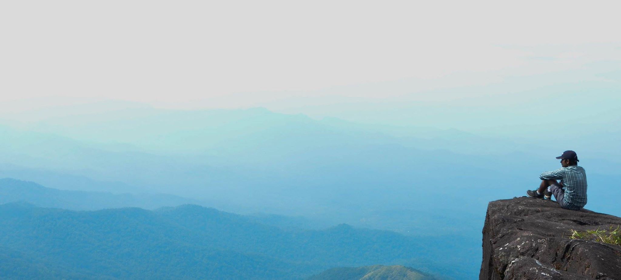 On the cliff of seshaparvatha